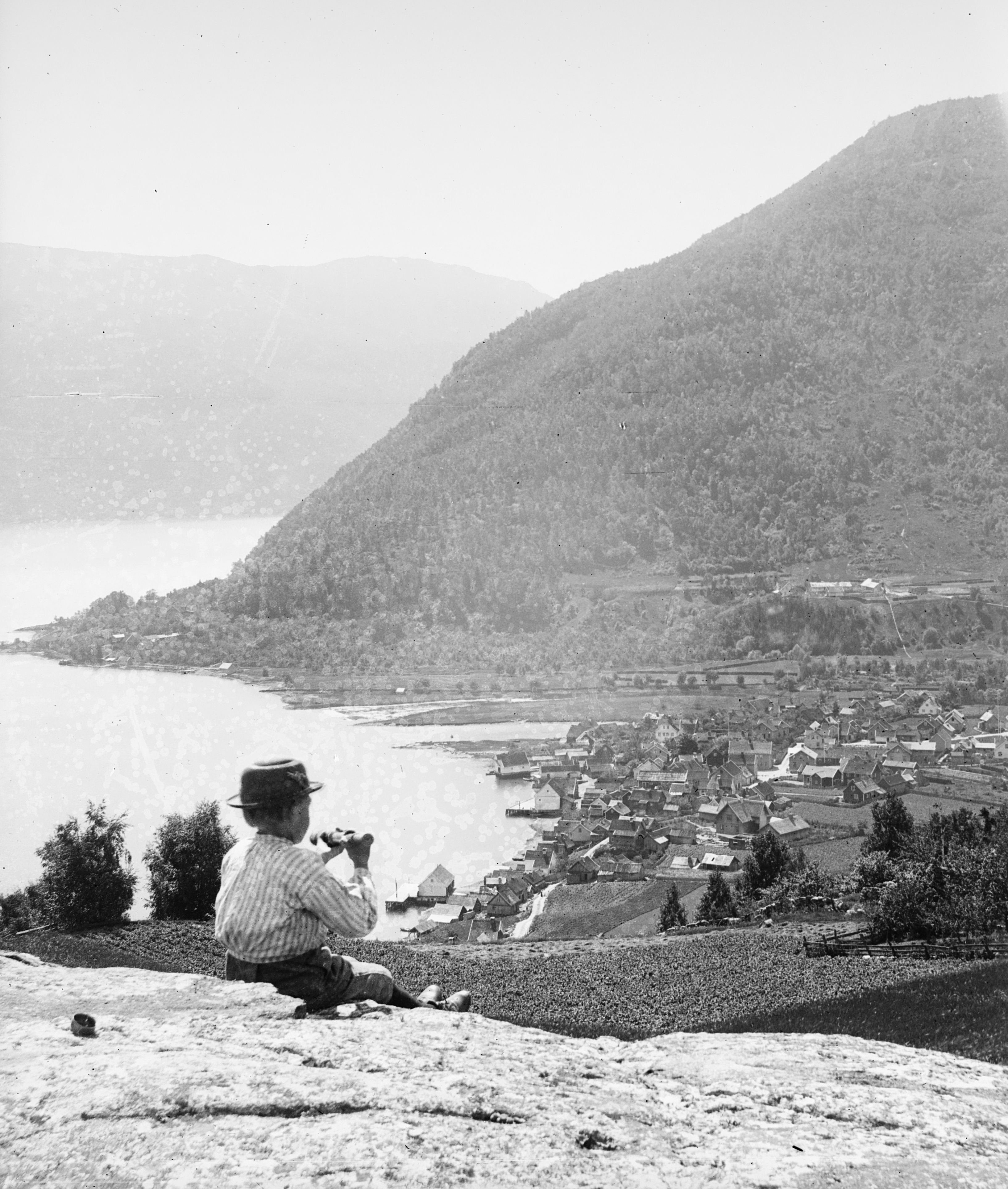 Identifier: SFFf-1988009.288490 Medium: Glass plate negative. Extent: 13 x 18 cm.